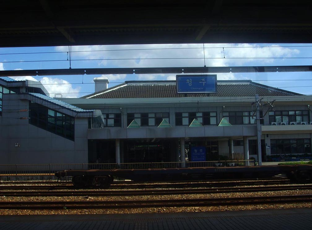 Chungbuk Line Cheongju Station